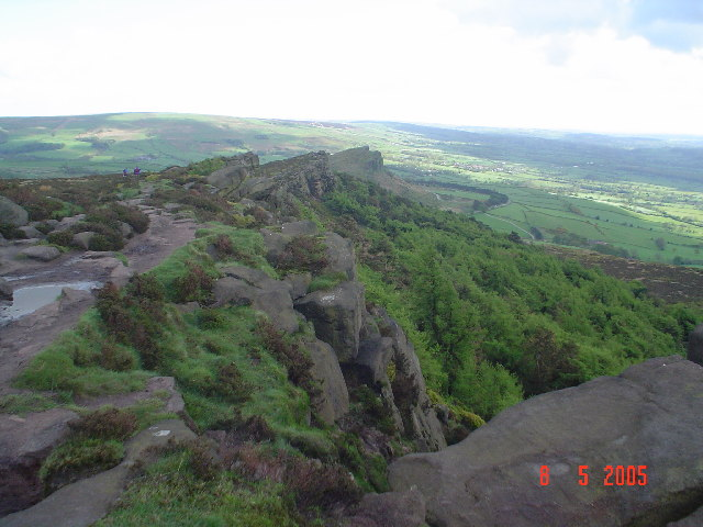 The Roaches. Looking S towards Hen Cloud, which can be seen just above the centre of pic.